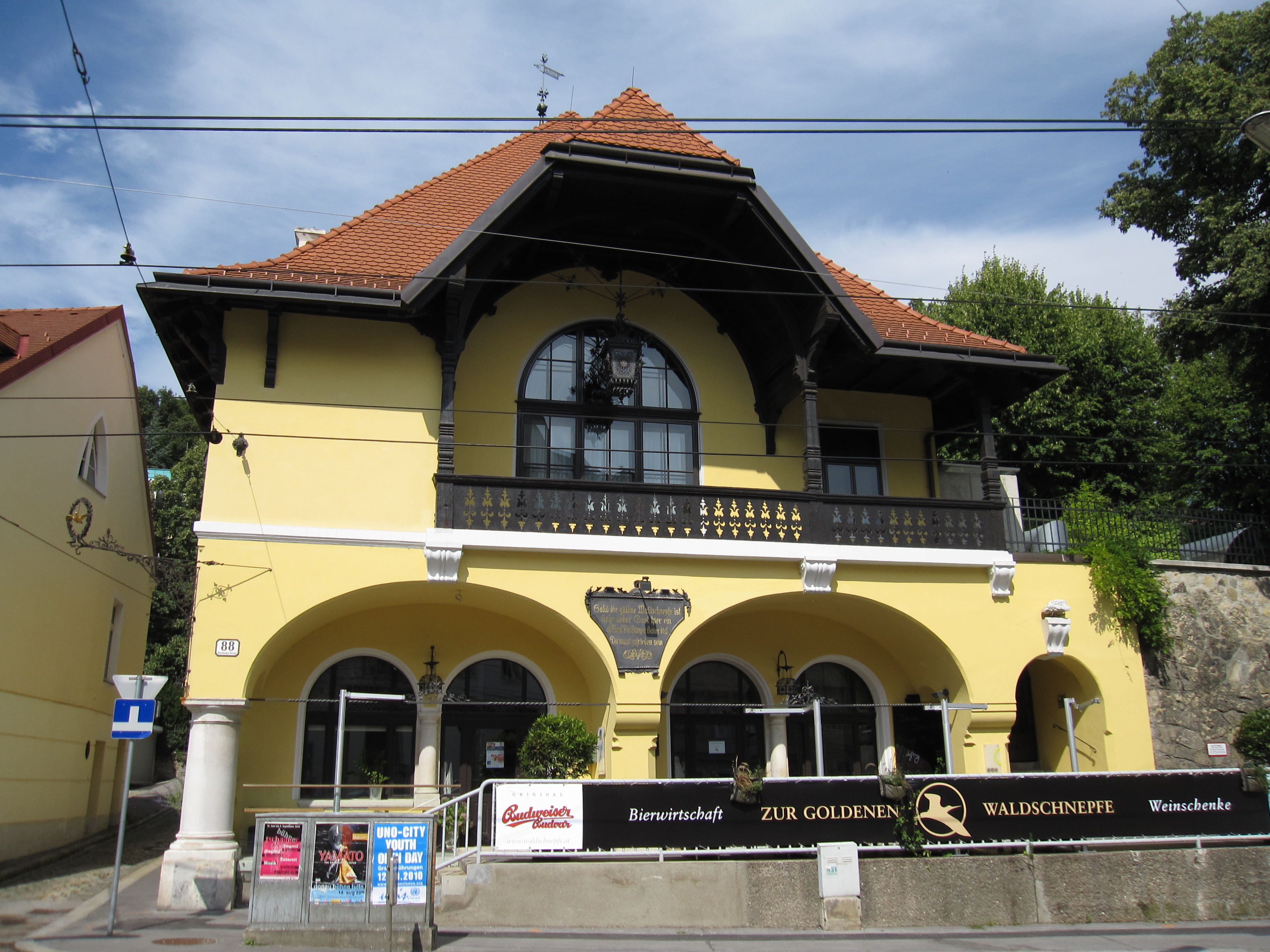 Zur güldenen Waldschnepfe in Hernals, Vienna.